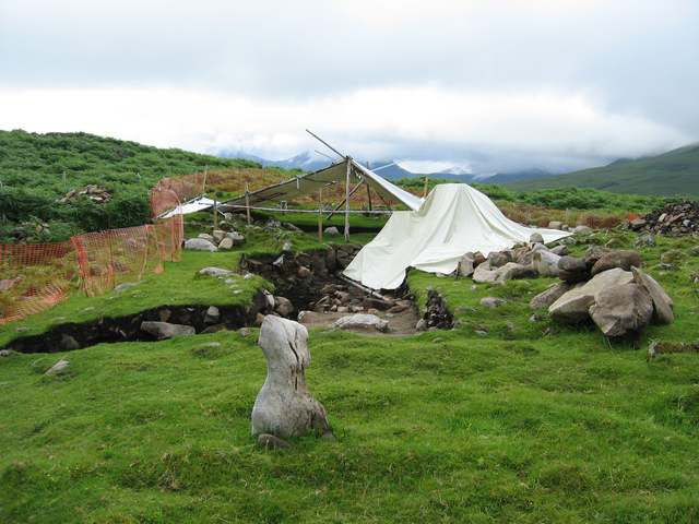 Uamh An Ard Achadh Discovered in 1972 by students from the University of London Speleological Society, Uamh An Ard Achadh (High Pasture Cave) lies approximately 1km south east of Torrin in a shallow valley on the north side of Beinn an Dubhaich. The cave contains around 320m of accessible passages making it the second longest cave complex on Skye. This photograph shows the archeological work taking place on the site following a discovery in 2005 of the remains of three humans in the cave, together with artefacts suggesting it was an important burial site. The cave passages are formed in Cambrian Durness Limestone.